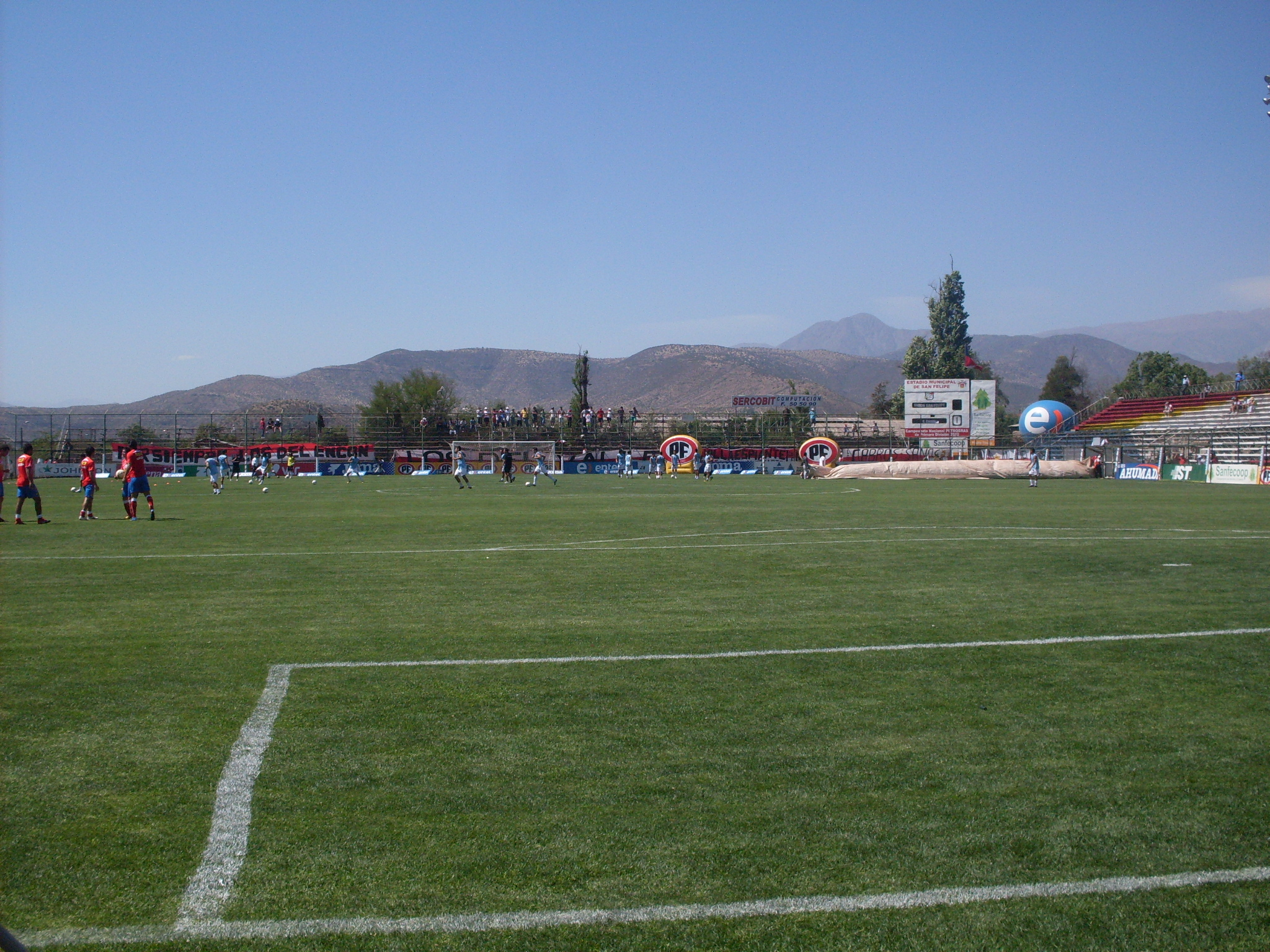 Photo of the court at San Felipe Municipal Stadium, from the visitors gallery. Taken before the match between local Unión San Felipe and Universidad Católica.